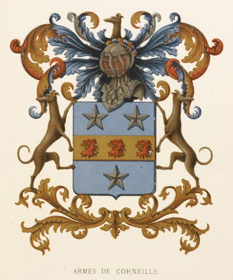 The Ancient Coat of Arms of the Cornielje family, dating back to 1637